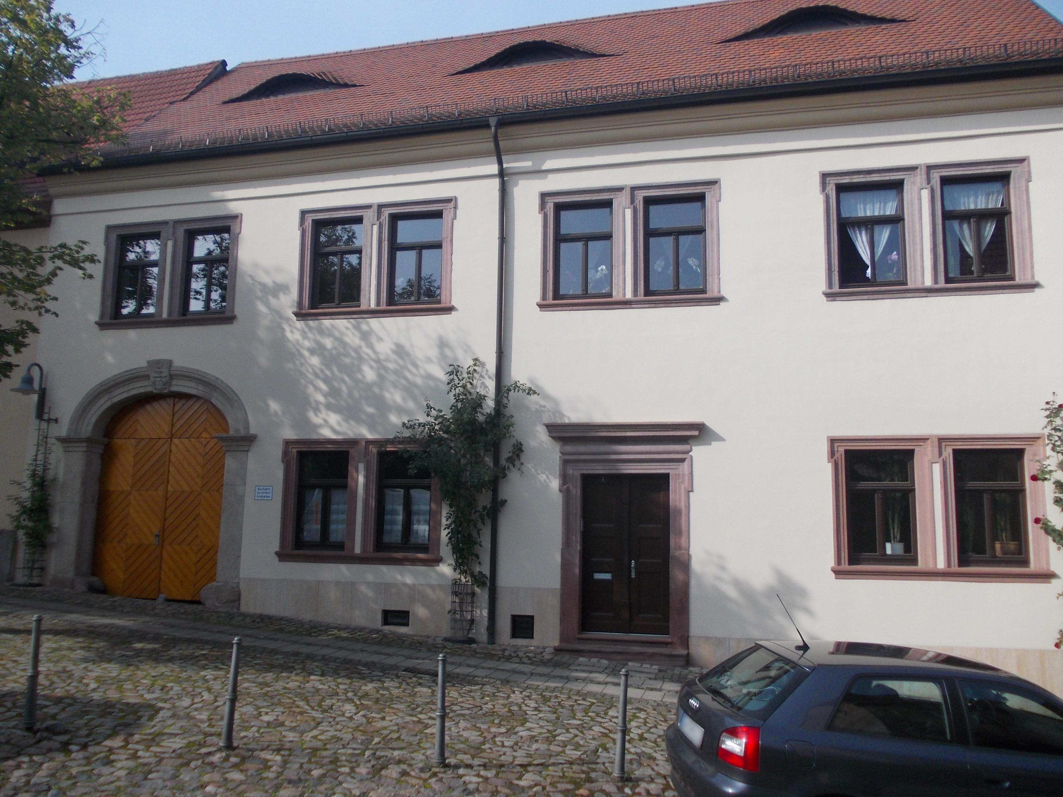 No. 4, An der Trillerei in Sangerhausen (Mansfeld-Südharz district, Saxony-Anhalt)